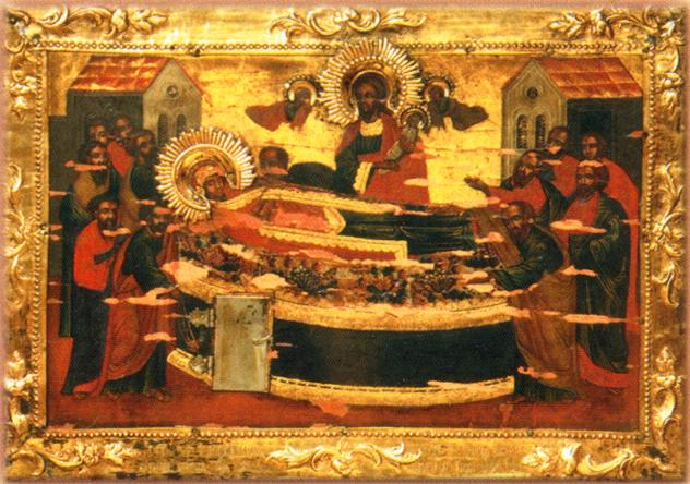 Pecherskaya icon from Kazan Cathedral of Luga